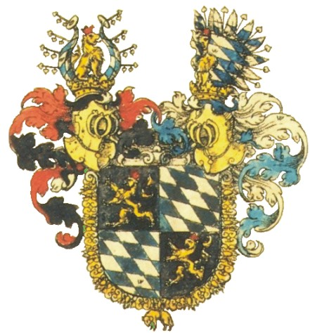 Coat of arms of the duke of Bavaria in 1703